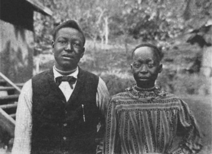 Man and woman of the Ngombe tribe, adherents of the Baptist mission, Bopoto